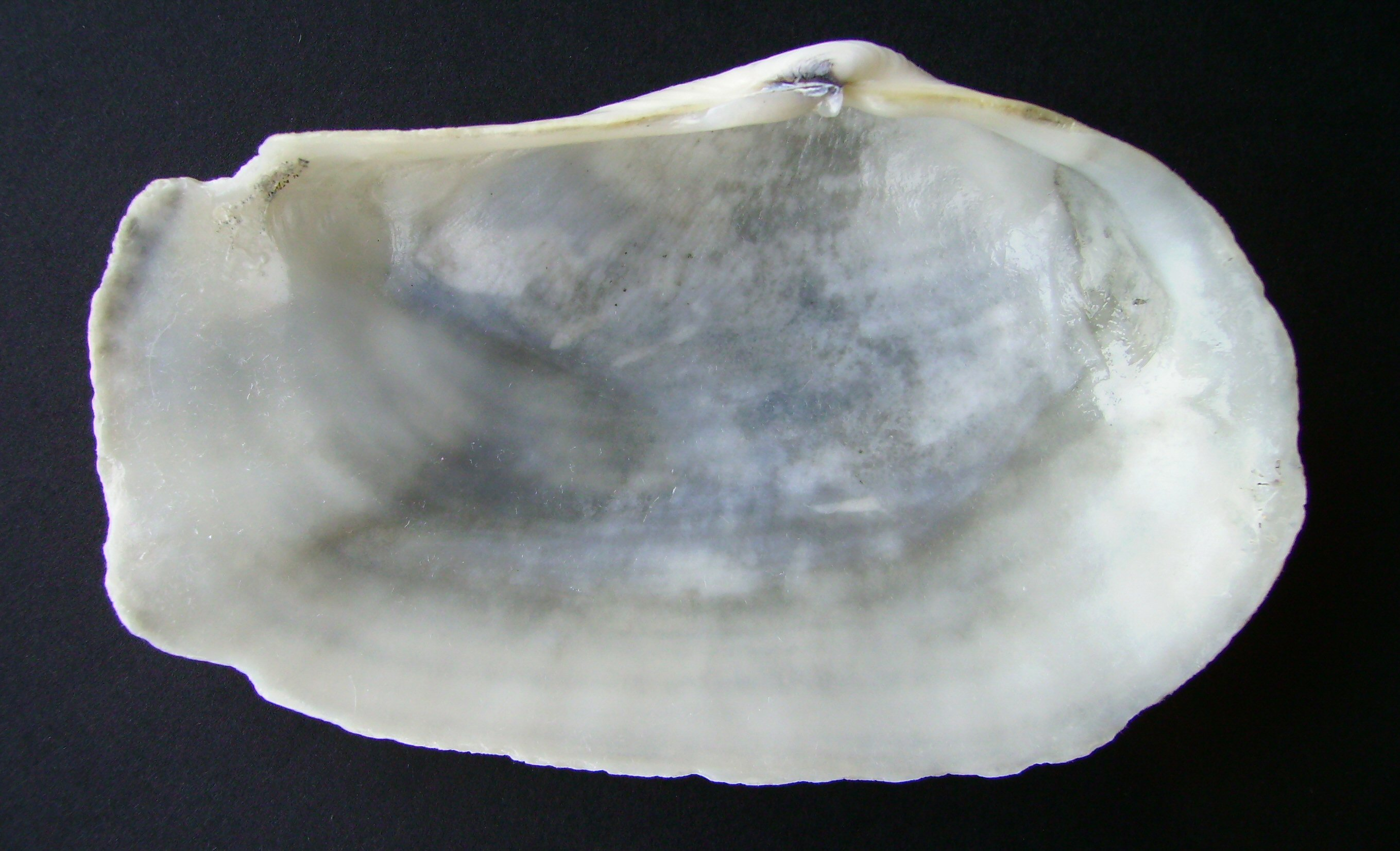 Panopea zelandica (inside) from Pakiri Beach, New Zealand. This work has been released into the public domain by its author, Graham Bould. This applies worldwide. In some countries this may not be legally possible; if so: Graham Bould grants anyone the right to use this work for any purpose, without any conditions, unless such conditions are required by law.